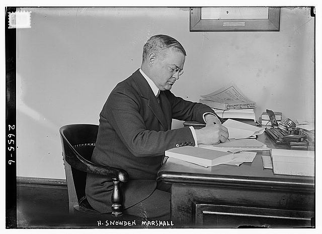 Hudson Snowden Marshall in 1915